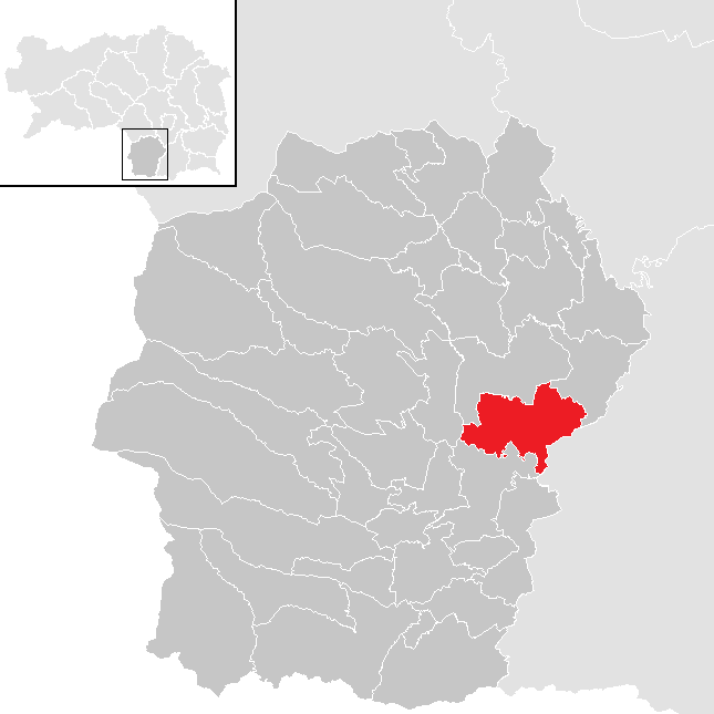 District Deutschlandsberg, Styria, Austria